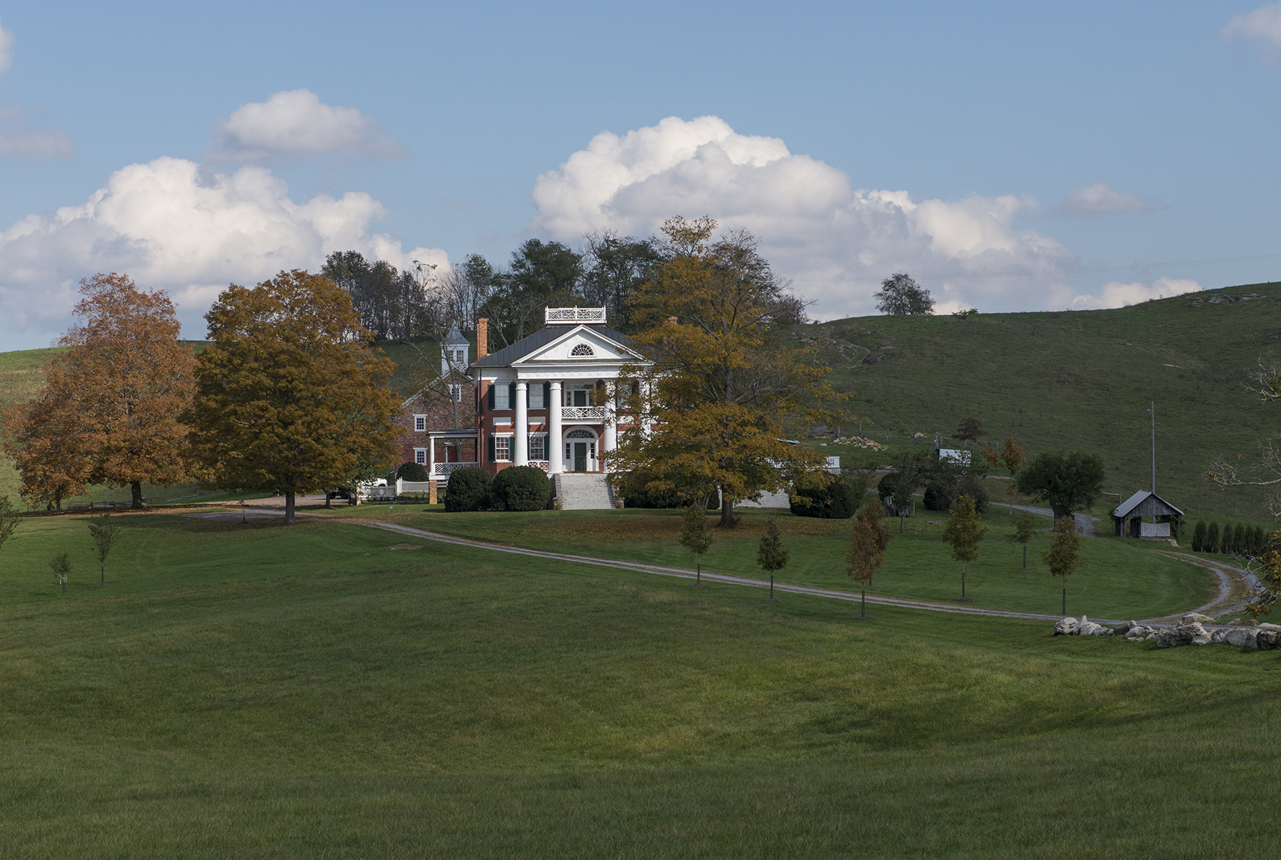 Caperton Home on Rte. 219 just north of Union, WV shown from the westl and including grounds.